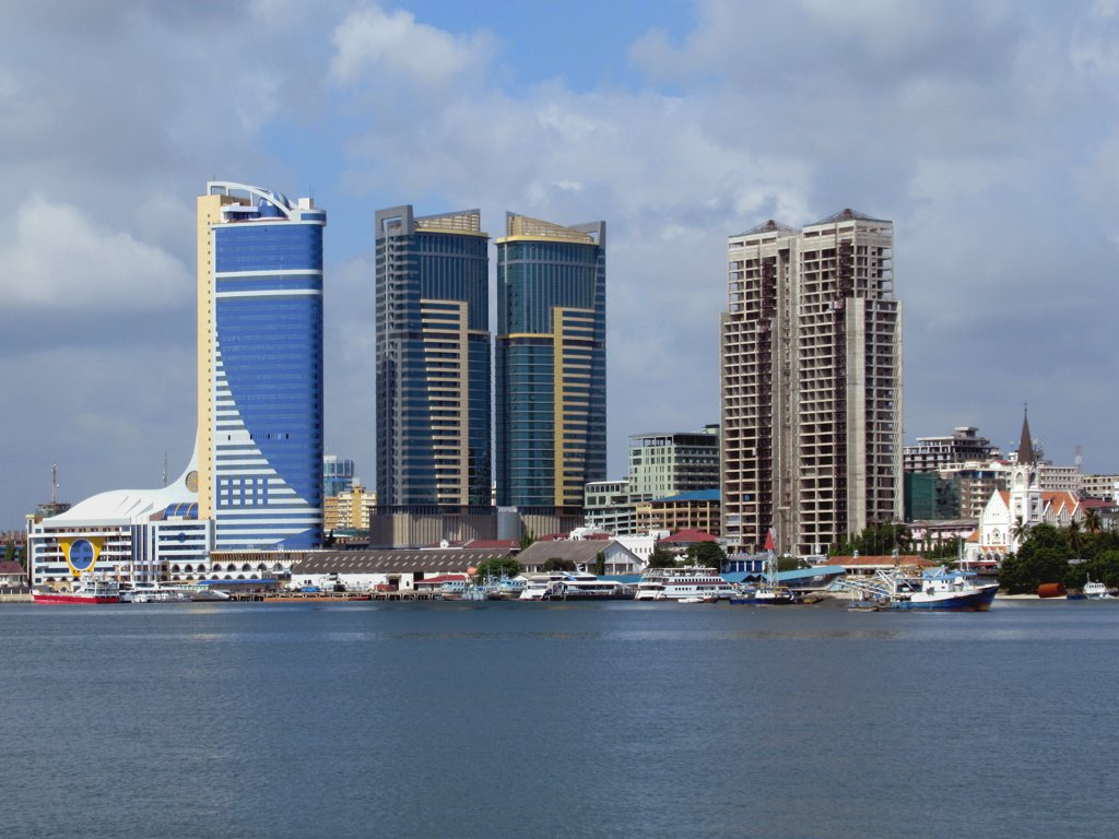 Left to right, the Tanzania Ports Authority Tower, Public Service Pension Fund Commercial Twin Towers, and Mwalimu Nyerere Foundation Square rise above Dar es Salaam's waterfront.